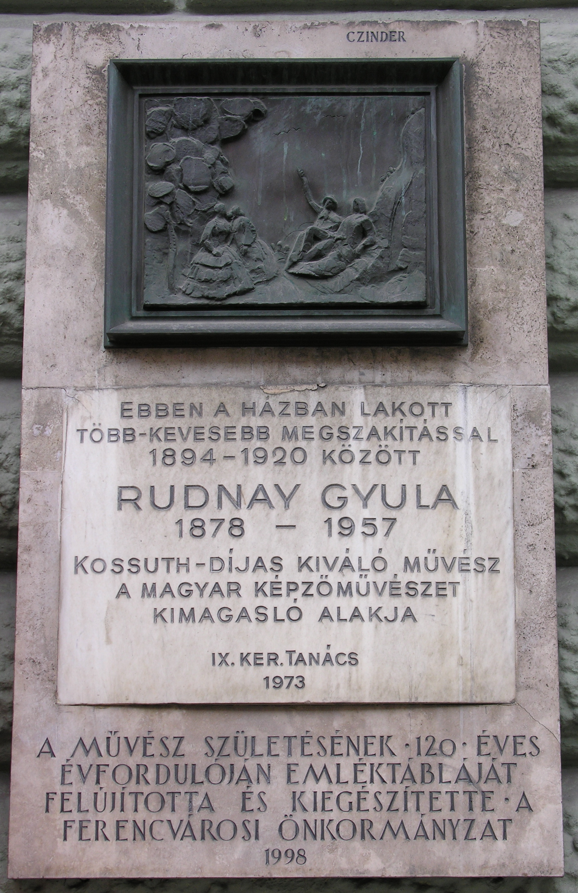 Commemorative plaque of Gyula Rudnay in Budapest District IX, Ferenc Boulevard No 40